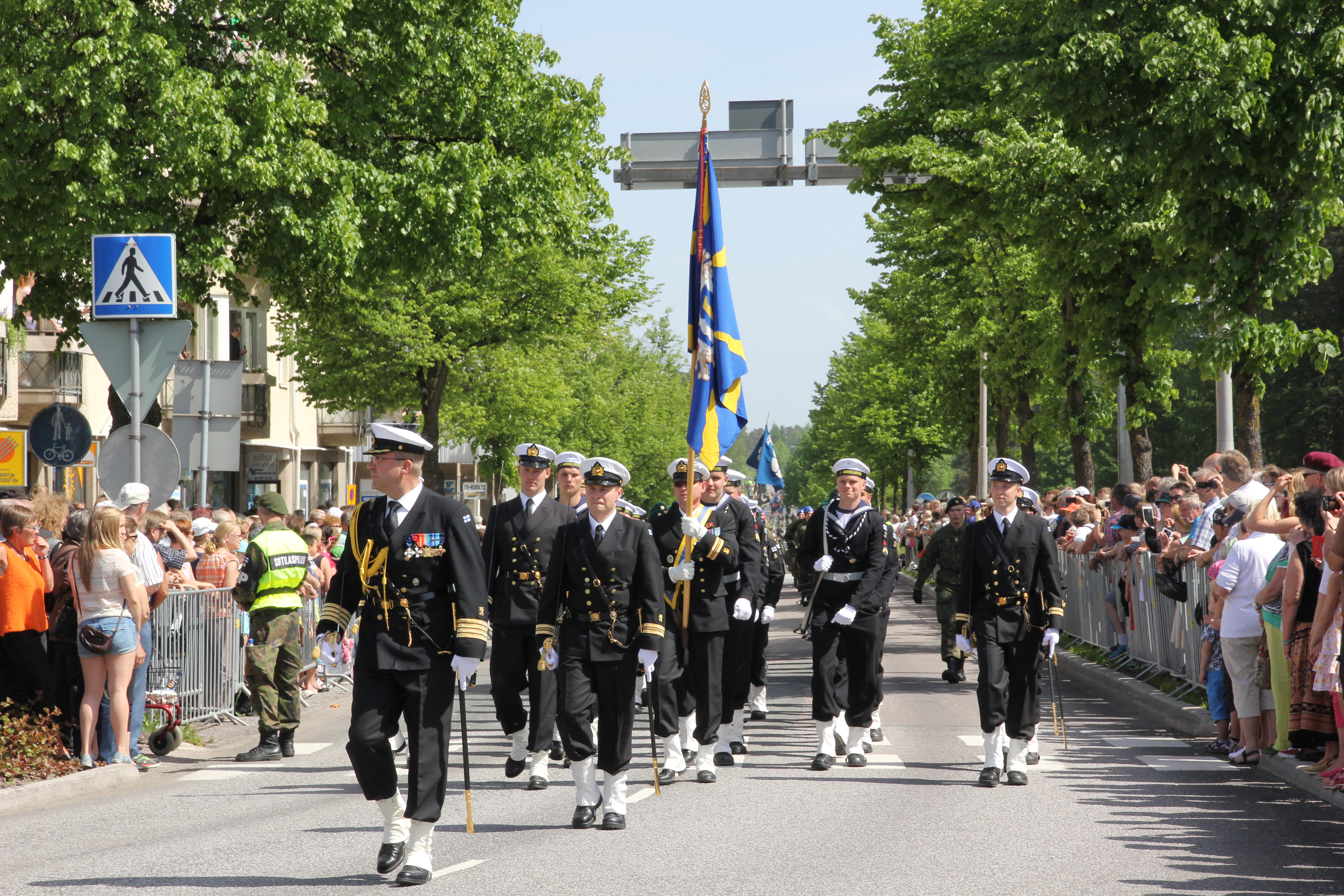 Uusimaa brigade during the Finnish military Flag Day 2014 parade along Valtakatu street in Lappeenranta. Captain Olavi Jantunen leading.